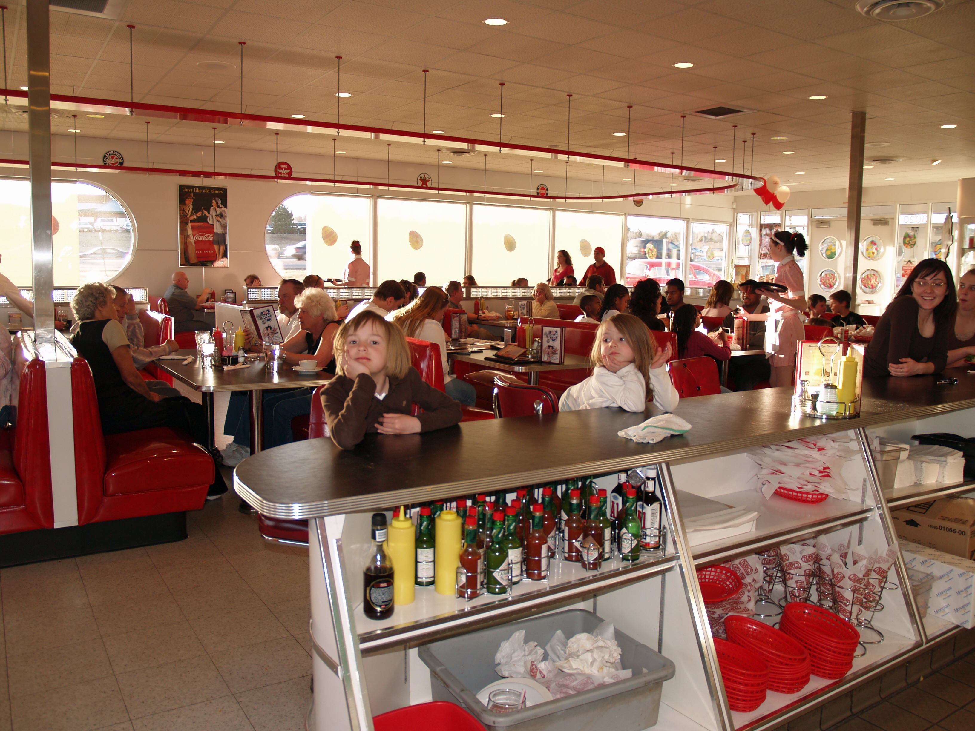 Ruby's Diner in Colorado Springs prior to being converted to 3 Margaritas at First & Main Town Center.